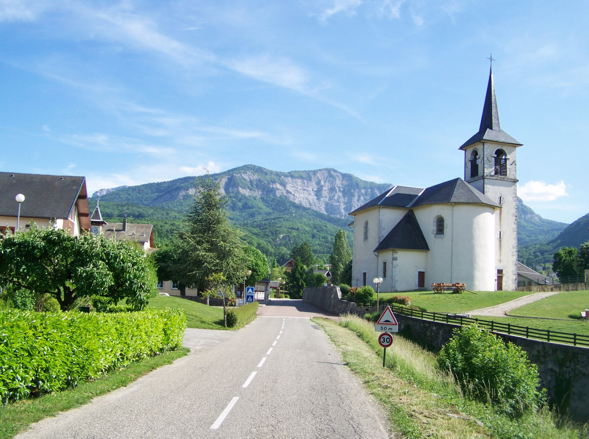 Entering into French village of Saint-Cassin on the heights of Chambéry in Savoie.